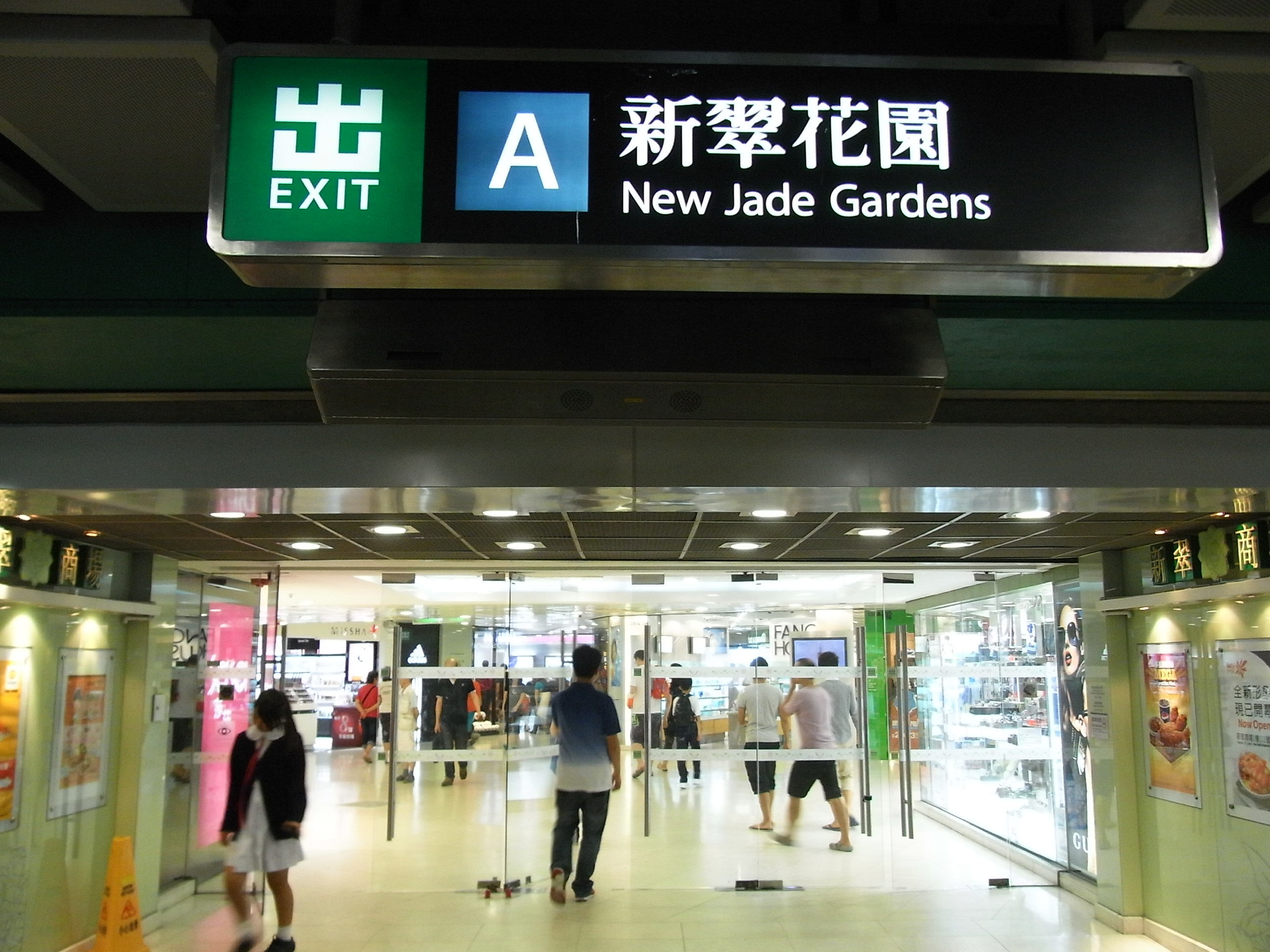 2012年9月zh:柴灣 新翠商場, New Jade Shopping Arcade, Chai Wan Road, Eastern District, Hong Kong